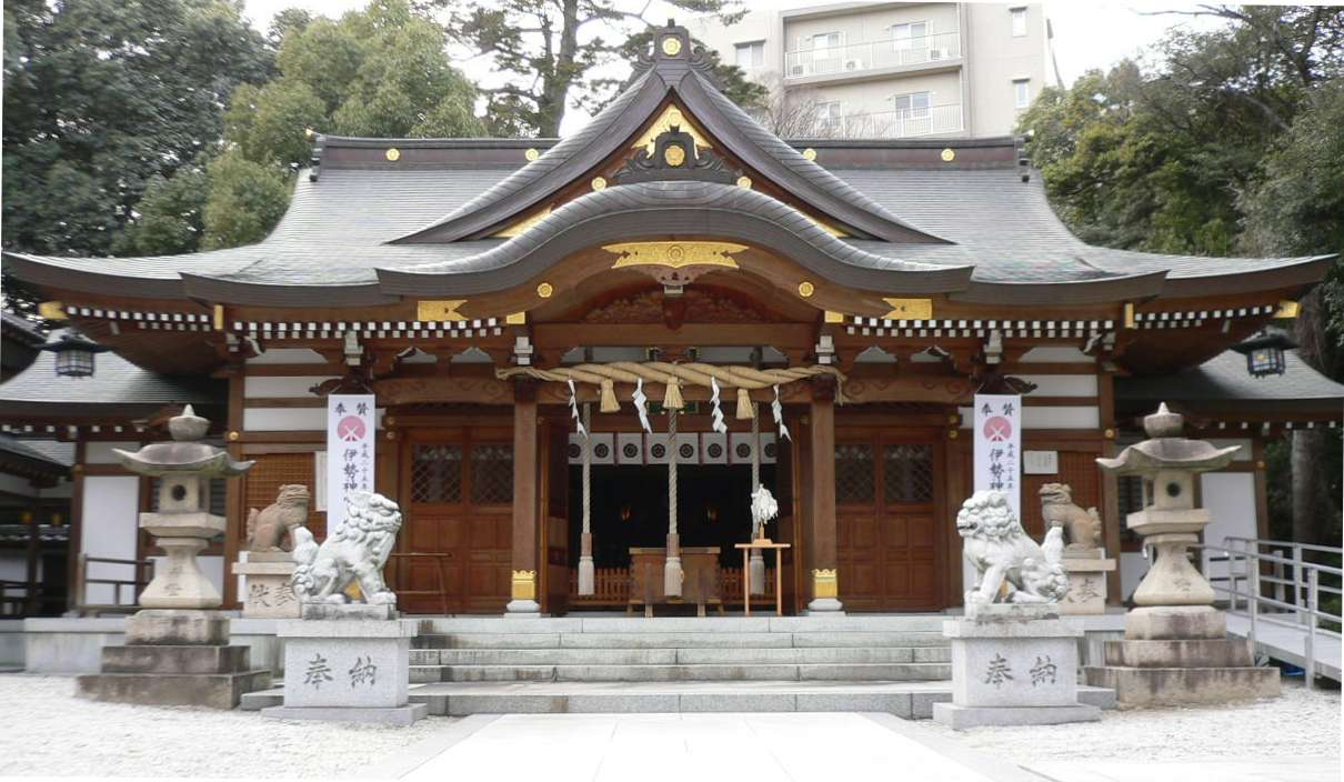 Iwashizu Jinjya (Shrine) at Hyōgo Prefecture in Japan.